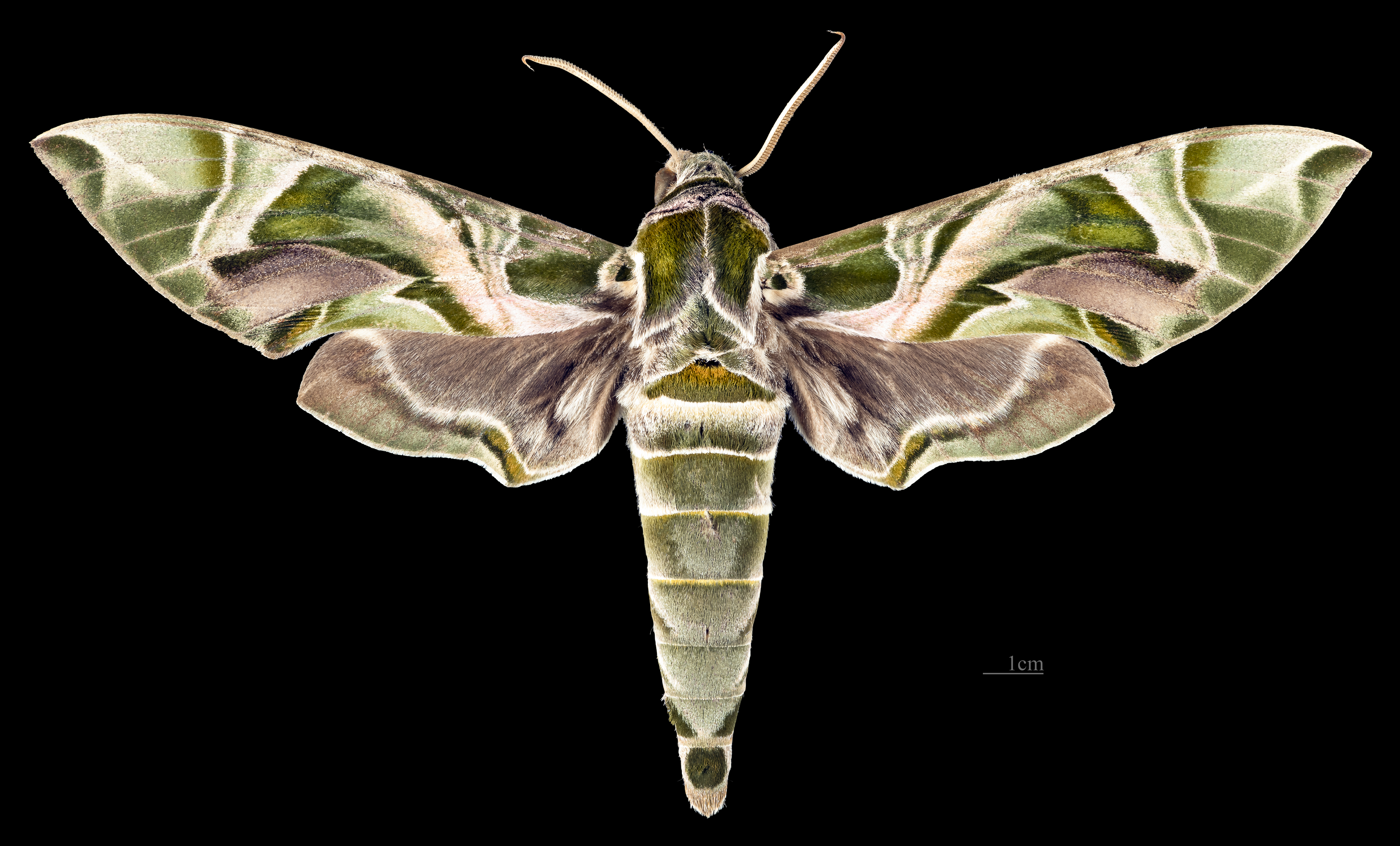 Daphnis nerii - Dorsal side Collection of the Mathematician Laurent Schwartz